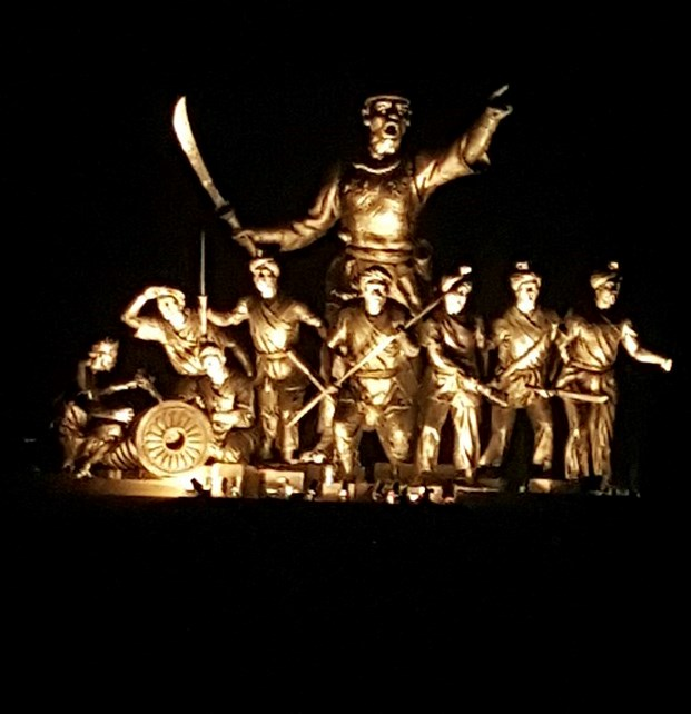 35-feet-high statue of Ahom general Lachit Borphukan in the middle of the Brahmaputra, was inaugurated by former chief minister Tarun Gogoi on Sunday 31 January, 2016. The statue depicts the Battle of Saraighat of 1671 in which Lachit and his soldiers stopped the marauding Mughal army from invading the Ahom kingdom. It comprises a bronze statue of the general, eight 18-feet statues of soldiers and two 32-feet-long water canons. The soldiers and the cannons are made of fibre glass. The total size of the pedestal on which the statues rest is 12 by 12 by 1.5 meters and it stands on a well 8.5 meters wide. The main statue stands four feet above the pedestal while the soldiers are placed below Lachit. অসমীয়া: ৩৫ ফুট ওখ আহোম সেনাপতি লাচিত বৰফুকন প্ৰতিমুৰ্ত্তিটো ৩১ জানুৱাৰী ২০১৬ তাৰিখ দেওবাৰে প্ৰাক্তন মুখ্যমন্ত্ৰী শ্ৰী তৰুণ গগৈদেৱে উন্মোচন কৰে। এই প্ৰতিমুৰ্ত্তিটোত ১৬৭১ চনৰ শৰাইঘাটৰ যুদ্ধত লাচিত বৰফুকন আৰু তেখেতৰ সৈন্যই বিশাল মোগল সৈন্যবাহিনীক প্ৰতিৰোধ কৰাৰ এটি মুহুৰ্ত দেখুৱা হৈছে। প্ৰতিমুৰ্ত্তিটোৰ অন্তৰ্গত অংশ কেইটা - ব্ৰঞ্জৰ লাচিতৰ মুৰ্ত্তি, ১৮ফুট ওখ সৈনিকসকল আৰু দুটা ৩২ ফুট দীঘল জল বৰটোপ। সৈনিক আৰু বৰটোপ কেইটা ফাইবাৰগ্ৰাচেৰে তৈয়াৰী। প্ৰতিমূৰ্তিটোক ধৰি ৰখা স্তম্ভটো ১২x১২x১.৫ মিটাৰ আৰু ই ৮.৫ মিটাৰ ঘেৰাৰ প্ৰাচীৰৰ ওপৰত আছে। লাচিতৰ মুল প্ৰতিমূৰ্ত্তিটো স্তম্ভটোৰ চাৰিফুট ওখত আছে আৰু সৈনিকসকলৰ প্ৰতিমুৰ্ত্তিকেইটা তলত আছে।